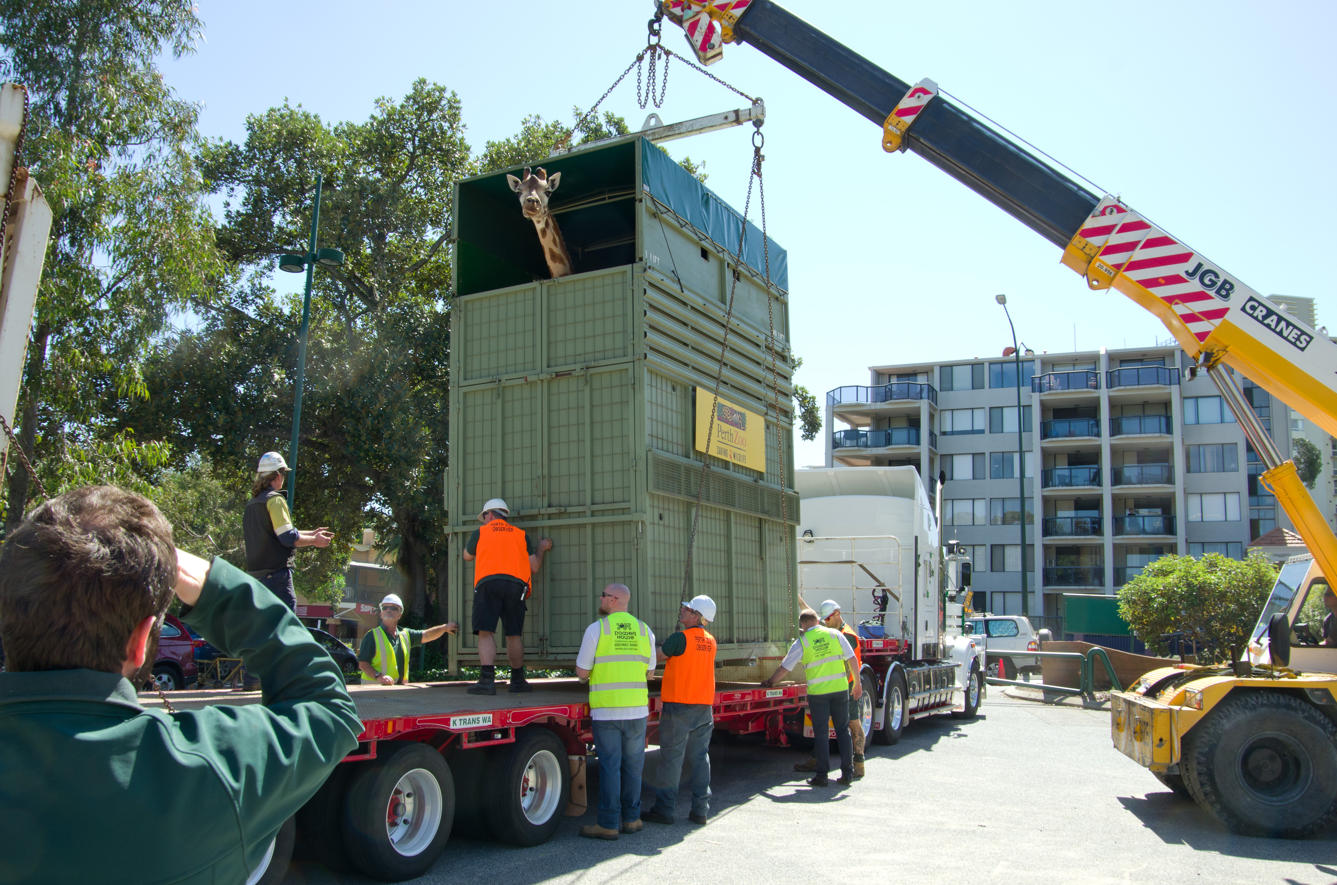 Asali commences her return from Perth Zoo breading program back to Monarto Zoo in South Australia a journey of some 2200km